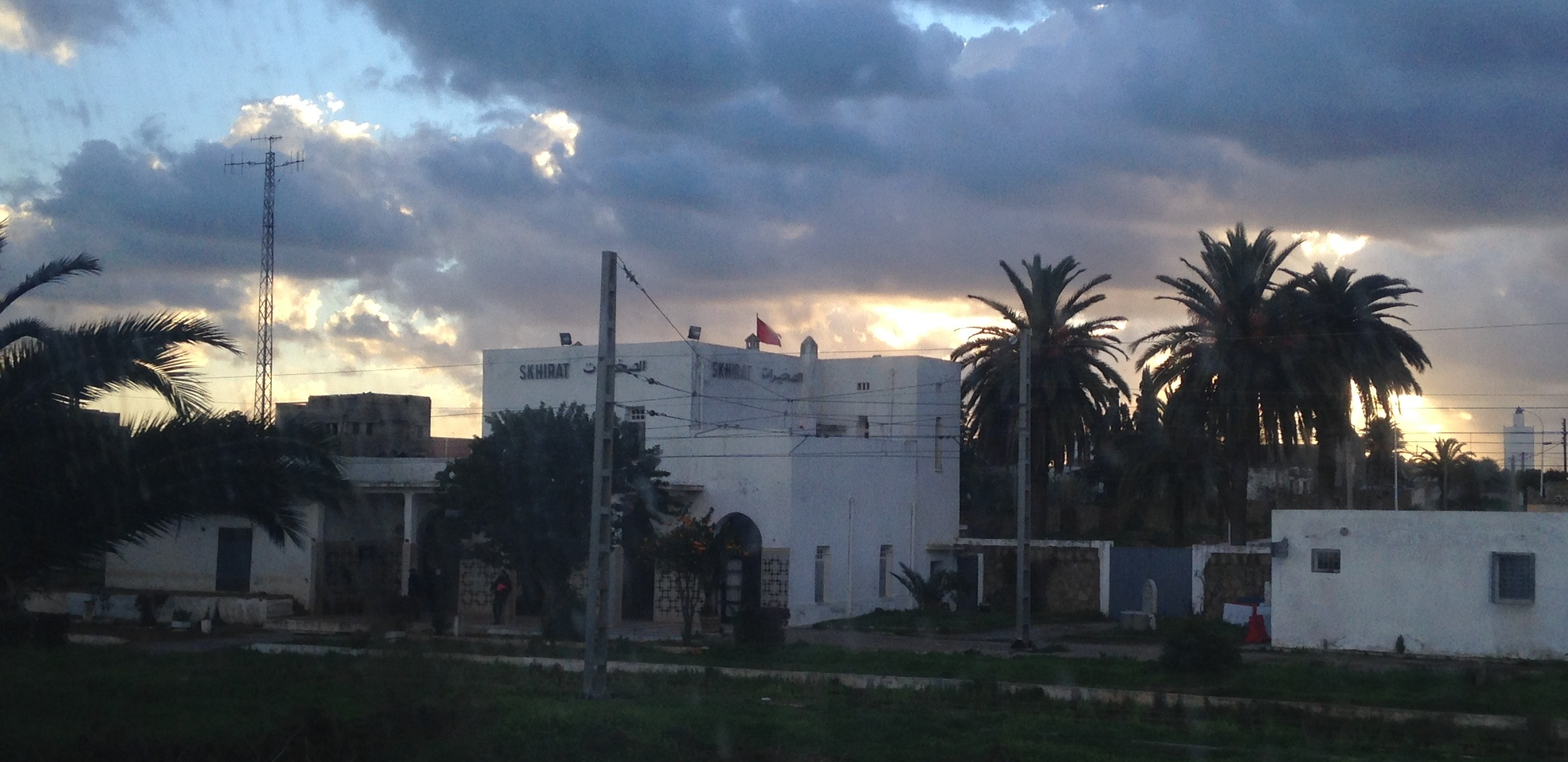 Skhirate Railway Station (Morocco)